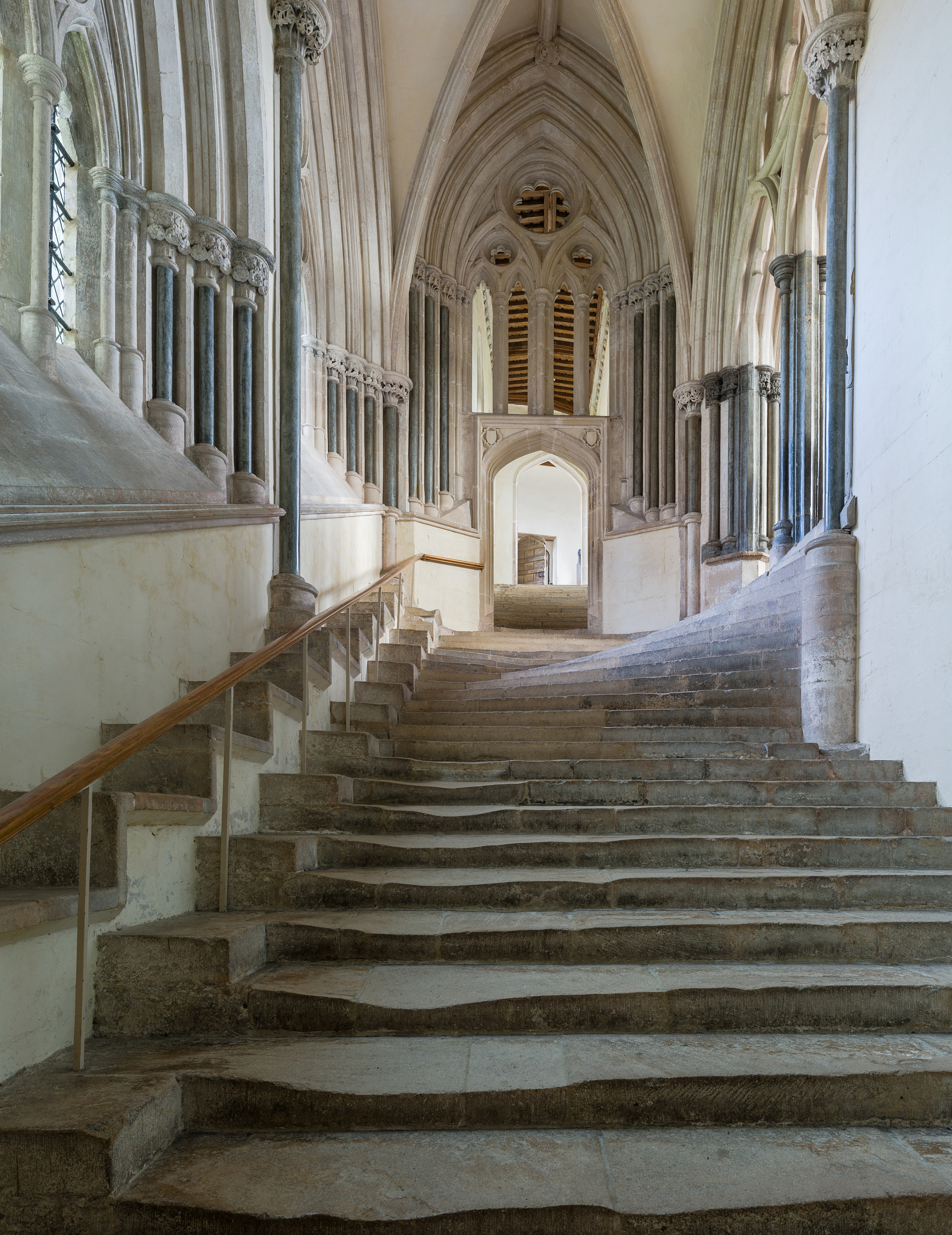 The stairs leading from the north transept of the cathedral to the Chapter House at Wells Cathedral.